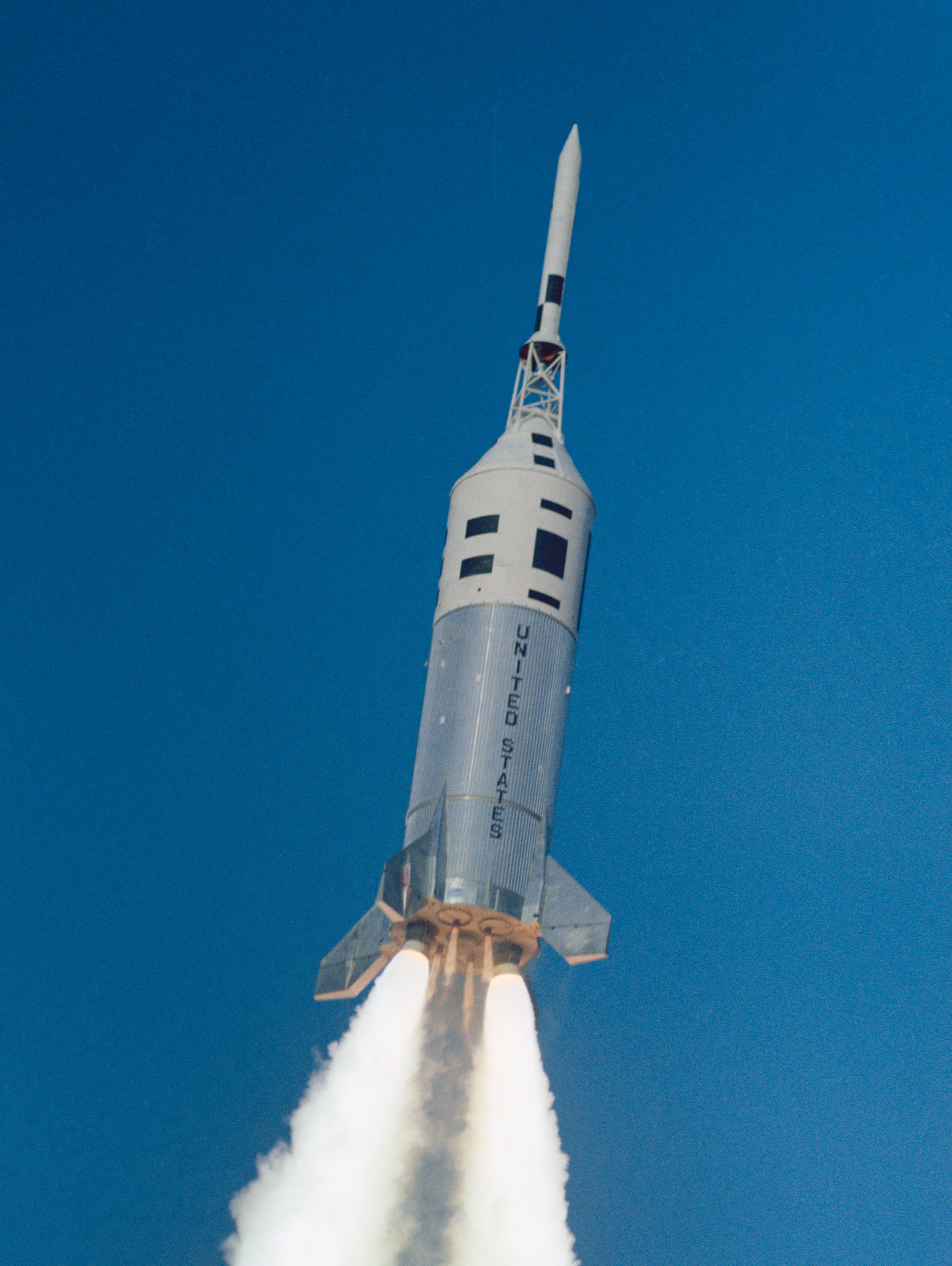 View following the liftoff of Apollo Command Module Boilerplate 23 and Launch Escape System atop the Little Joe II launch vehicle at Complex 36, WSMR. Image ID: S64-40370